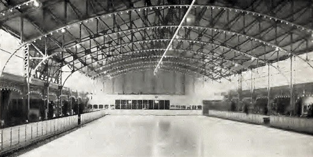 The arena where the first ice hockey games at the Olympics were held. Ice Palace Rink, Antwerp, Belgium, 1920.